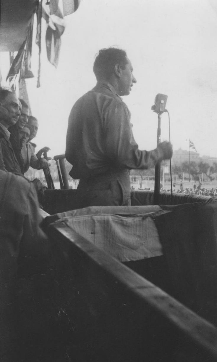 George Baldanzi speaking in Italy after WWII